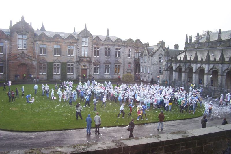 Students engaged in general frolicking in Sallies' Quad on Raisin Monday, November 2006. Basically, first years get dressed up by their 'Academic mothers' and are marched to the quad for a shaving foam fight.